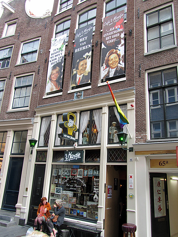 The mixed LGBT-bar 't Mandje at Zeedijk in Amsterdam, with banners showing founder Bet van Beeren (center).